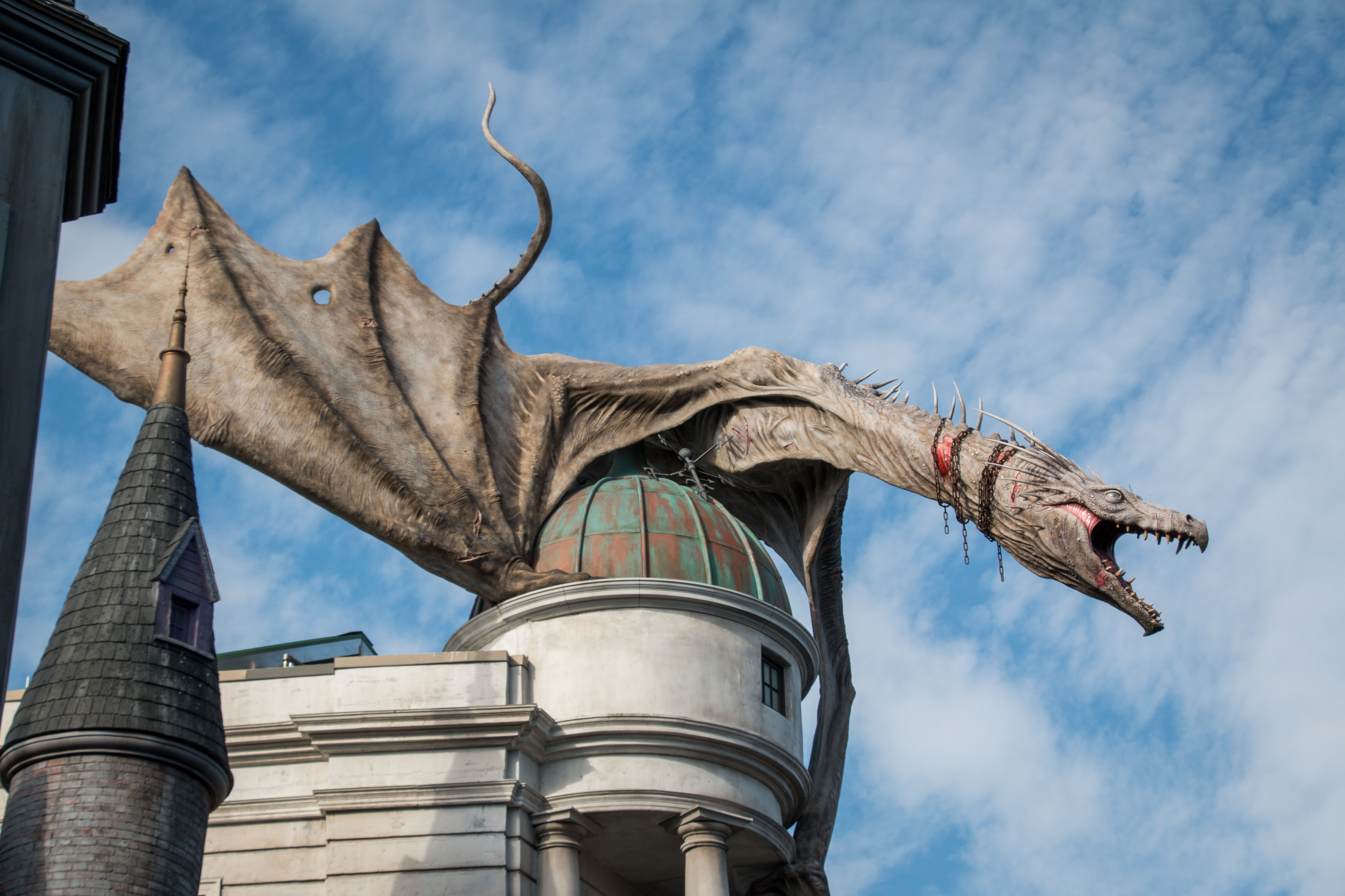 The dragon atop Gringotts in Diagon Alley at Universal Studios Florida is the best thing ever.